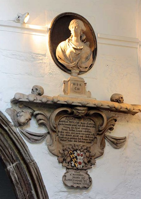 St Olave, Seething Lane, London EC3 - Wall monument Monument to Elizabeth Pepys